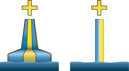 Emergency wreck marking buoy to mark a newly discovered danger as spcified in IALA Maritime Buoyage system.